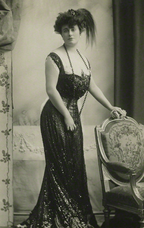 Kitty Gordon